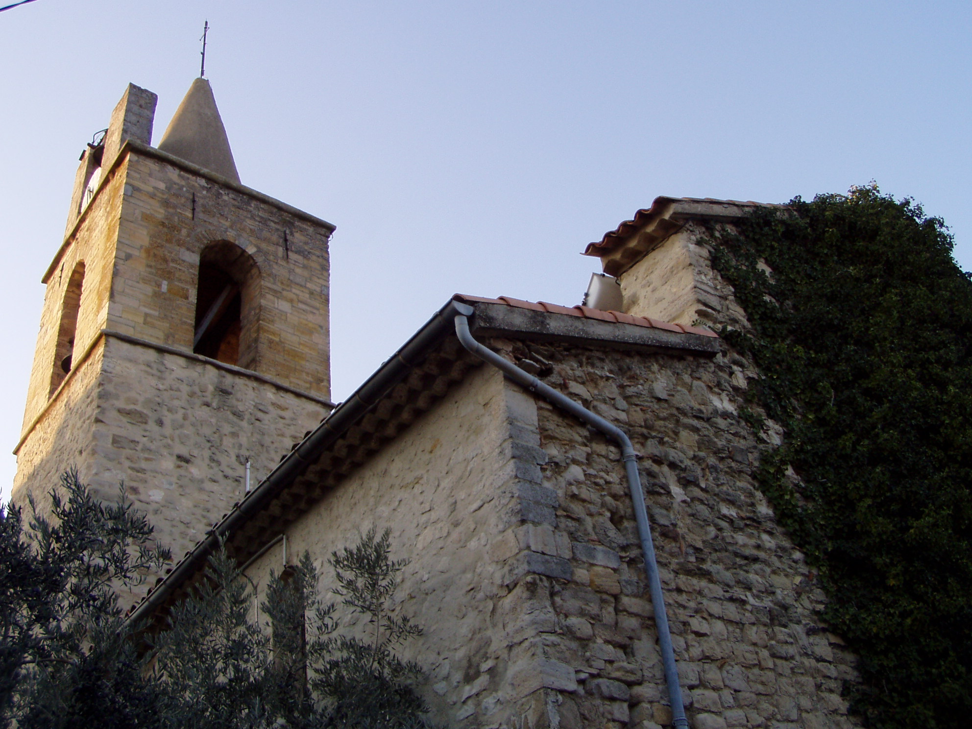 The church of Pierrevert